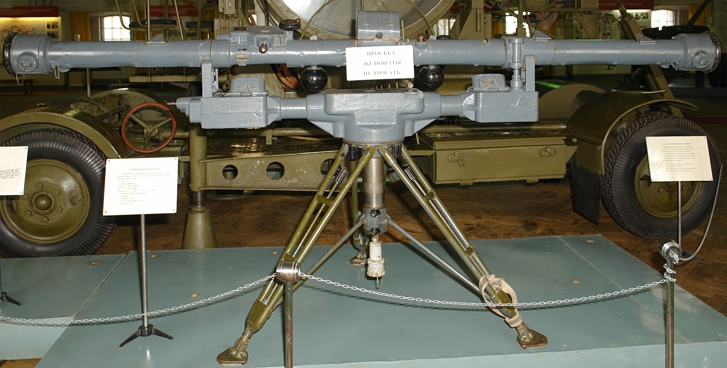 Rangefinder ДЯ-6 (tr.: DÂ-6) is designed to determine the range and altitude targets, as well as its angular coordinates (azimuth and elevation) for firing anti-aircraft artillery medium and large caliber. Base - 3 m. The limits of measurement: Range - from 2000 to 50000 m height - from 200 to 20000 m elevation of target --4 - 00 (-24 °) to 15-00 (90 °). Optical range finder: Zoom - 8x field of view - 7 ° 30 '. Weight in tactical position - 205 kg. Manufactured in USSR, 1945. Military Historical Museum of Artillery, Engineers and Signal Corps, Saint Petersburg, Russia